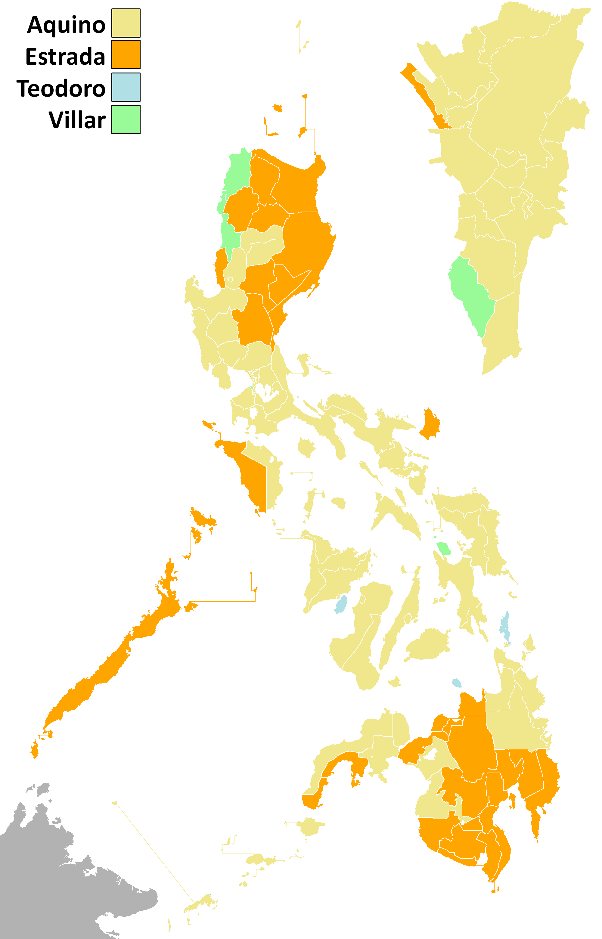 Simpler version of Image:2010PhilippinePresidentialElection.png -- only states which candidate won in each province.